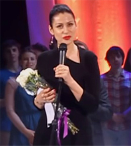 Anna Kovalchuk is receiving the 2015 Golden Soffit Award for Best Actress for her performance in "The City. Marriage. Gogol" play by Yuri Butusov.